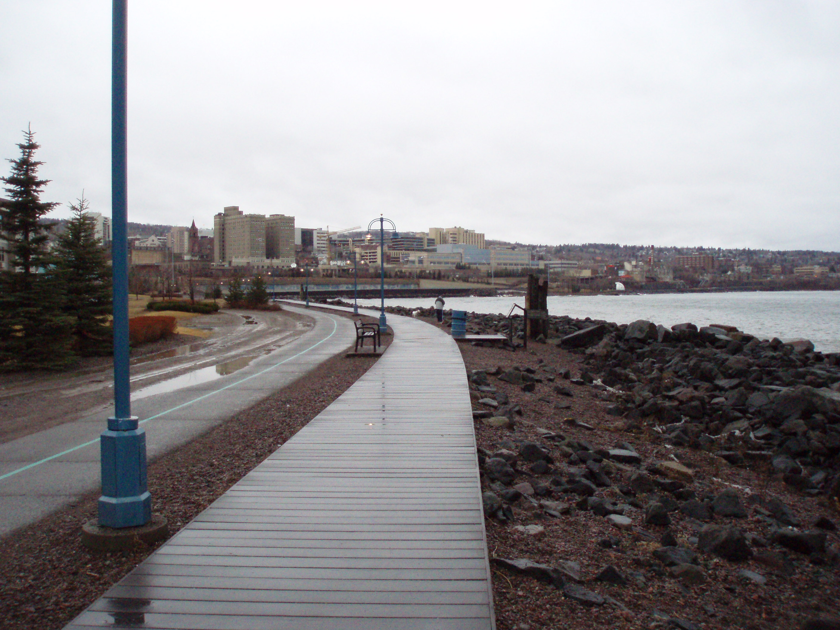 Duluth photo March 30, 2006